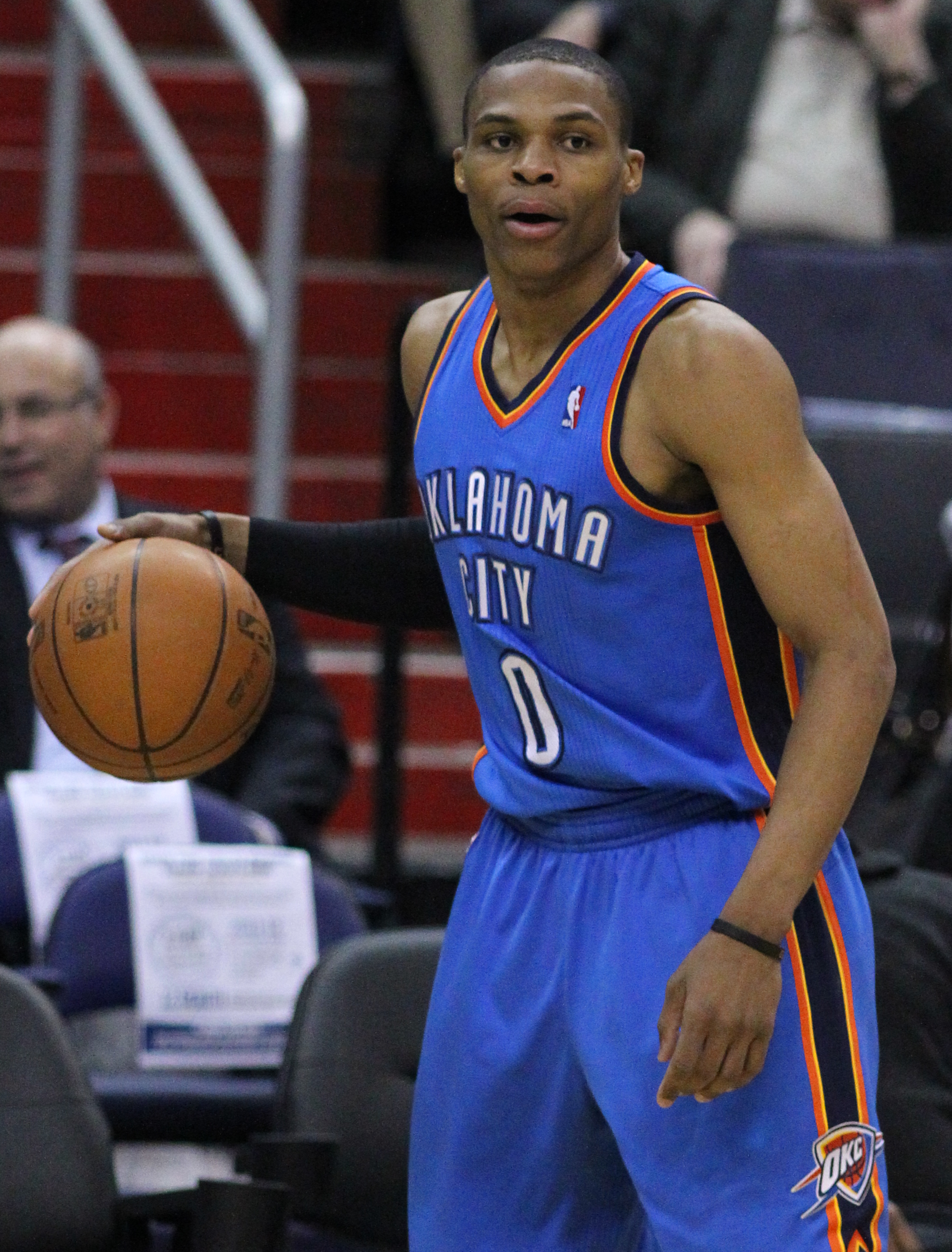 Wizards v/s Thunder 03/14/11